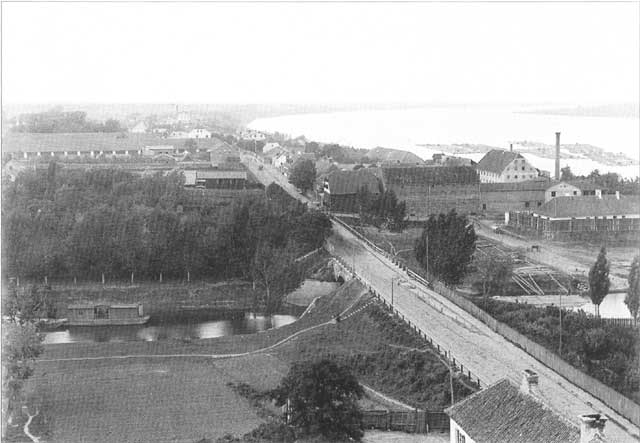 View for a bridge on Zgłowiączka river at then Toruńska street (nowadays Wyszyński street) in Włocławek on photograph by Bolesław Sztejner, made before 1898 year. On the photograph there are, except mentioned above bridge, among others: non-existent (on the left side of the street): commercial building of Włocławek's Cathedral, rowing harbor on Zgłowiączka river and Leon Bojańczyk's brickyard and existing building on the right side of the street: black granary and Bohm's chicory factory (nowadays Bomilla factory).